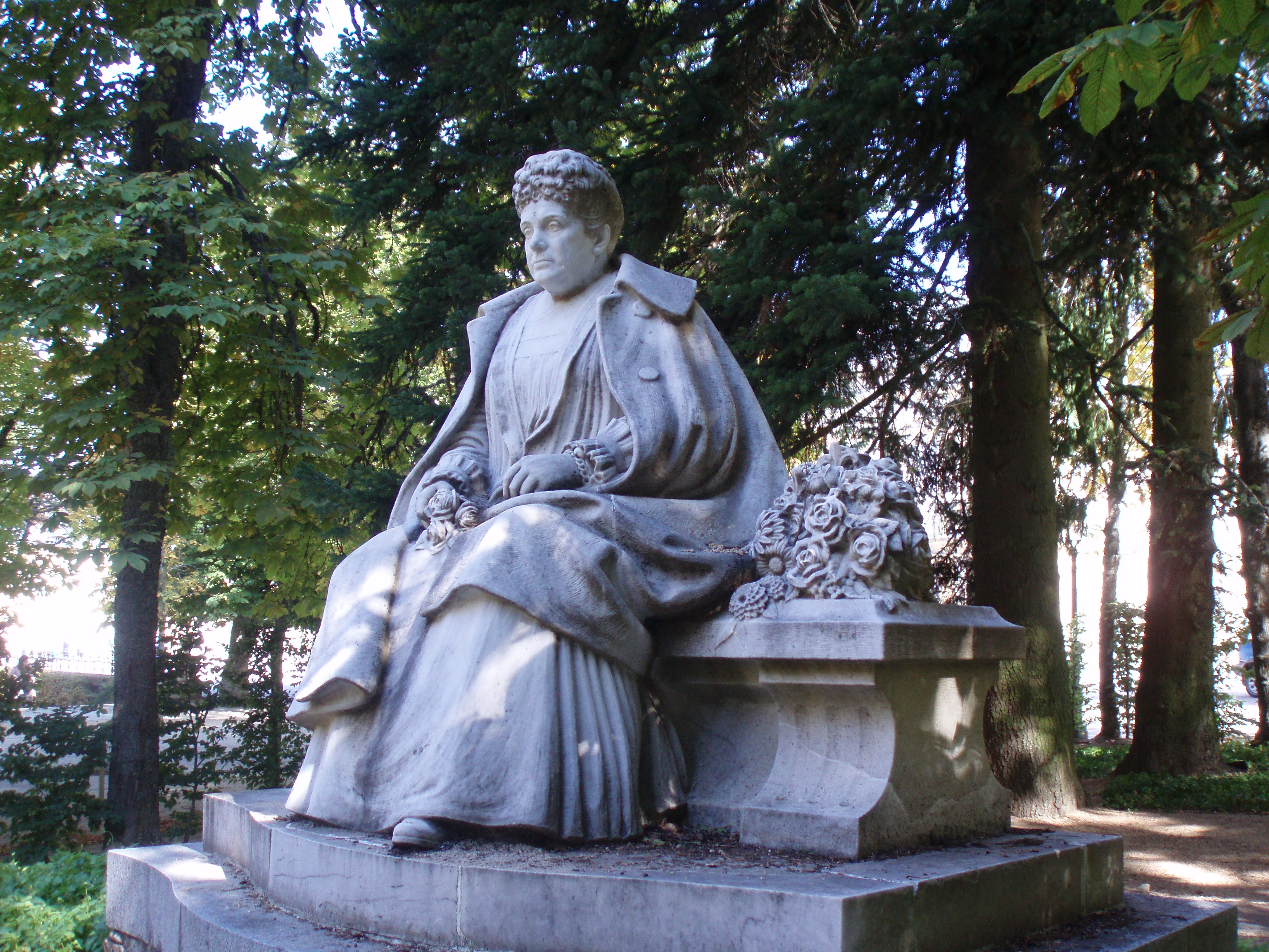 Memorial of Infanta Isabella of Spain (1851–1931), Spanish Royal Palace of La Granja Gardens